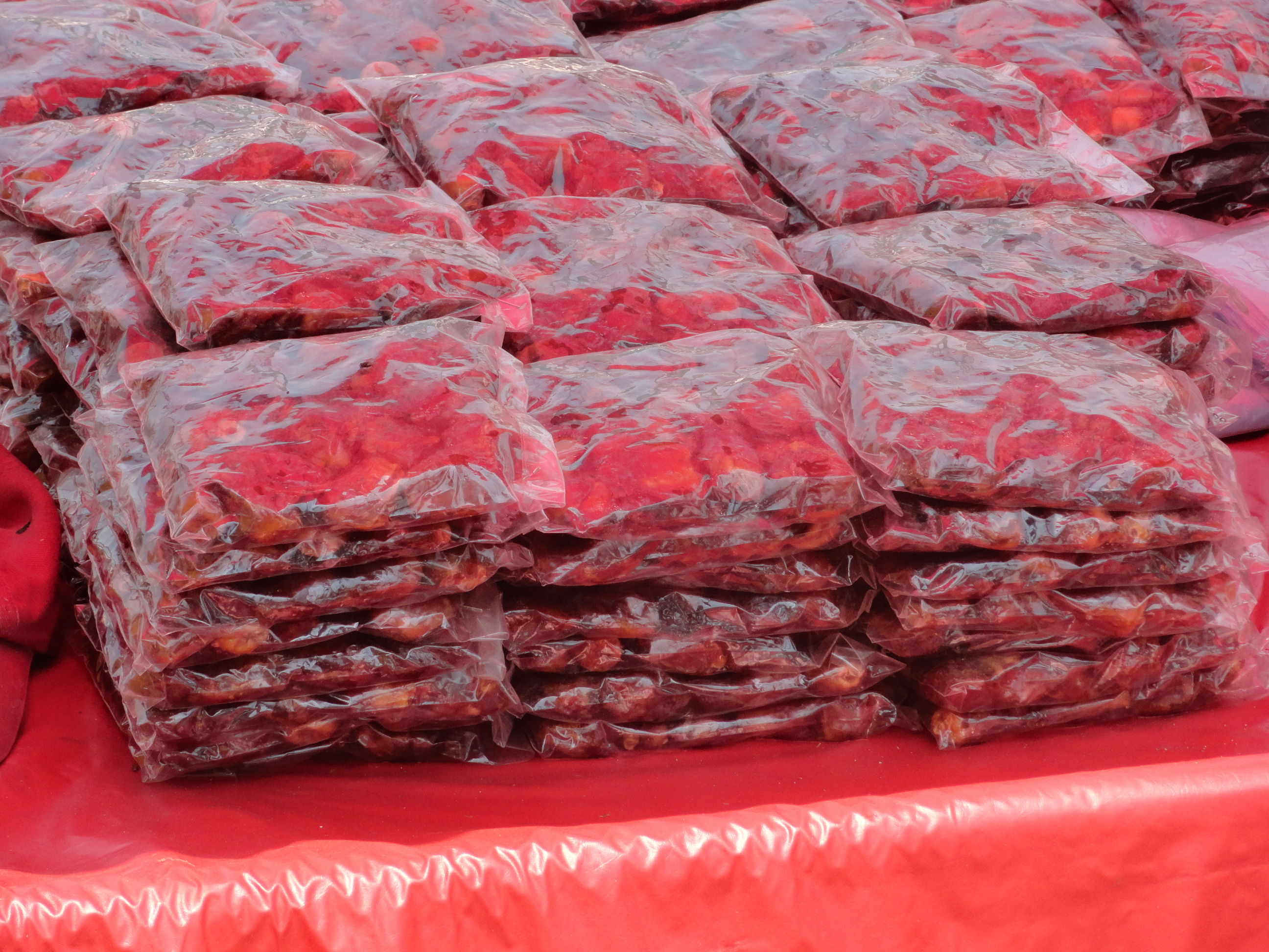 Date fruits in Hyhderabad